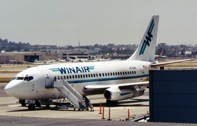 WinAir Airlines Boeing 737-236 at Long Beach Municipal Airport, Long Beach, California